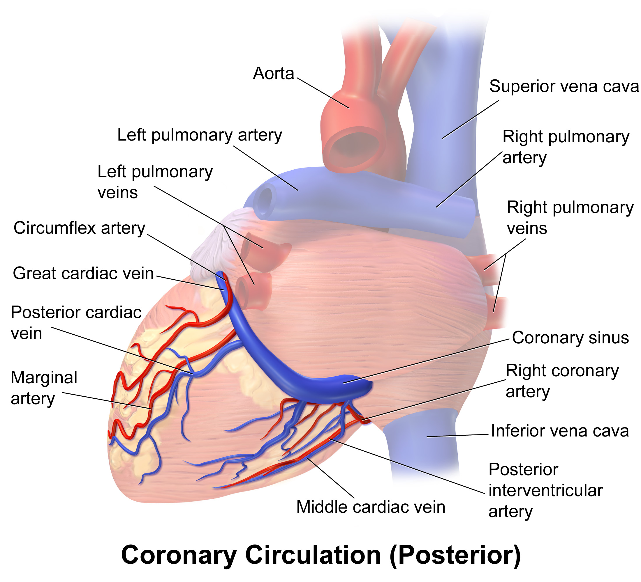 Coronary Circulation (Posterior). See a related animation of this medical topic.